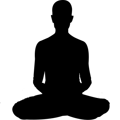 Yoga meditation position